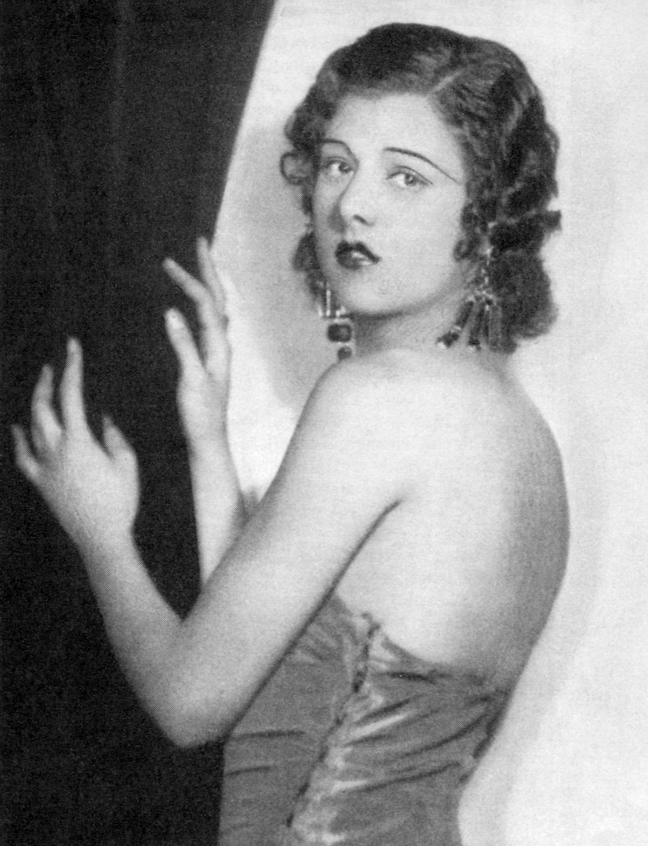 Photograph of Libby Holman Advertisement for Lux Toilet Soap